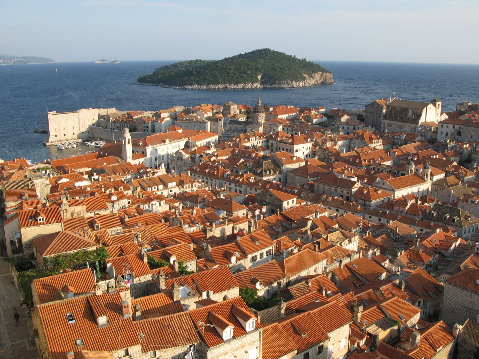 View of the roofs of the central part of Dubrovnik, Croatia